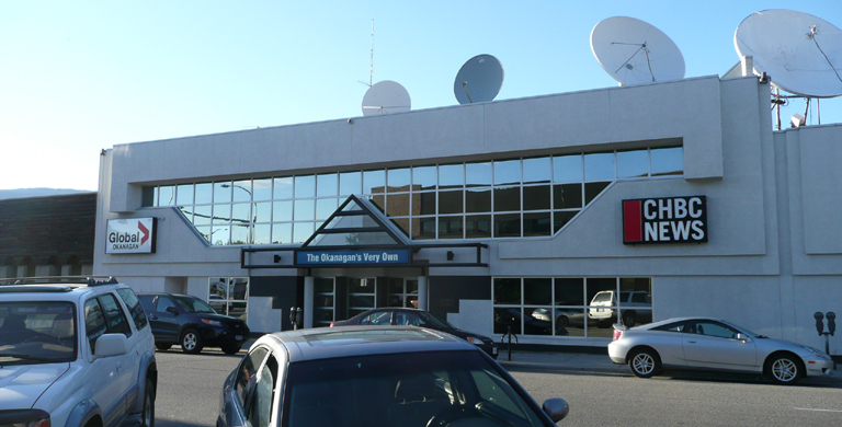 Studio building of CHBC-TV in Kelowna.